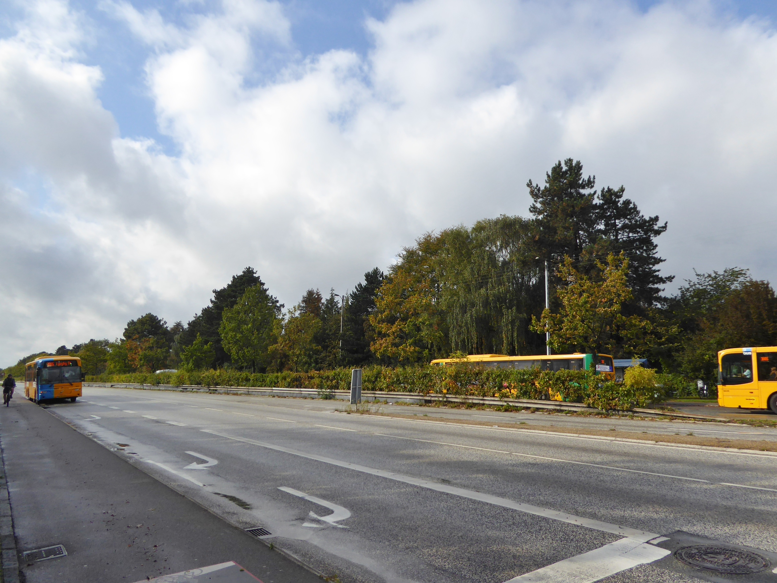 The road Gladsaxe Ringvej at Gladsaxe Trafikplads in Copenhagen. When Hovedstadens Letbane opens in 2025 it will have at station in the middle of the road.